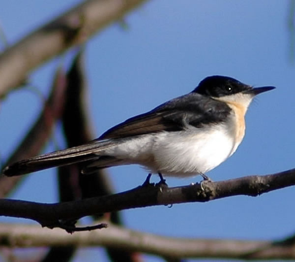 Bird, Restless Flycatcher, Myiagra inquieta